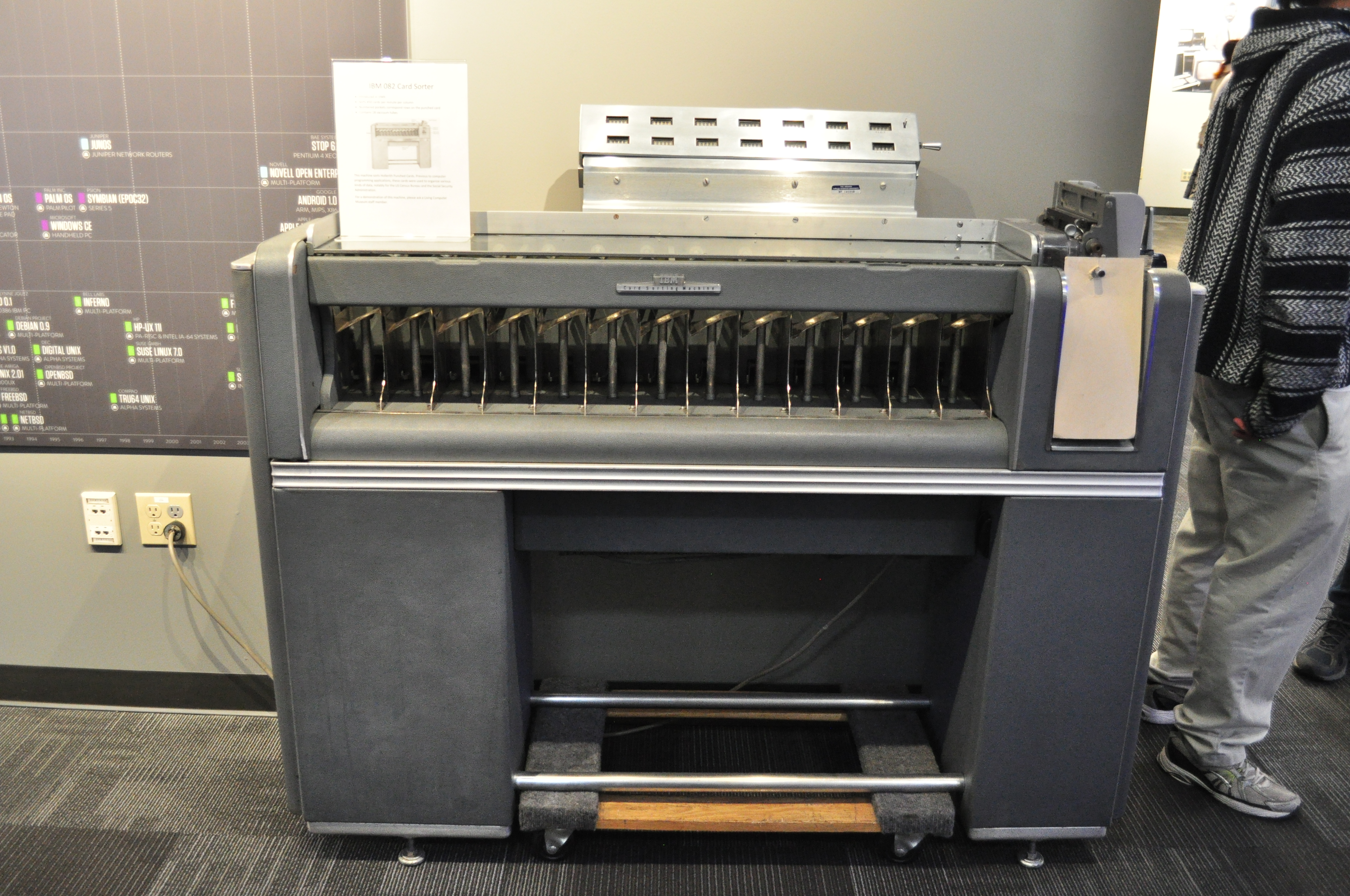 IBM 082 card sorter (collator), Living Computer Museum, Seattle, Washington, USA.